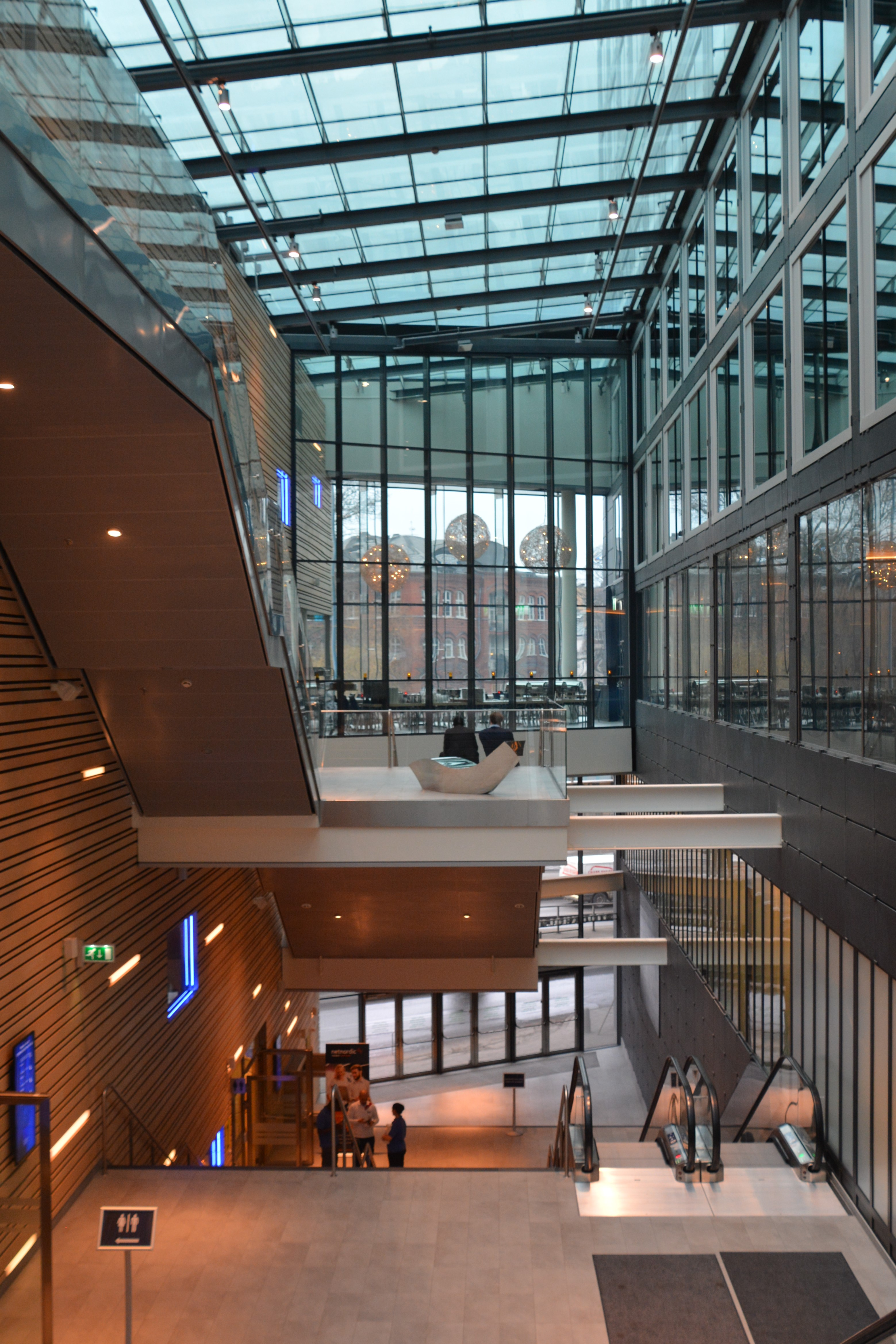 Stockholm Waterfront, trapphallen